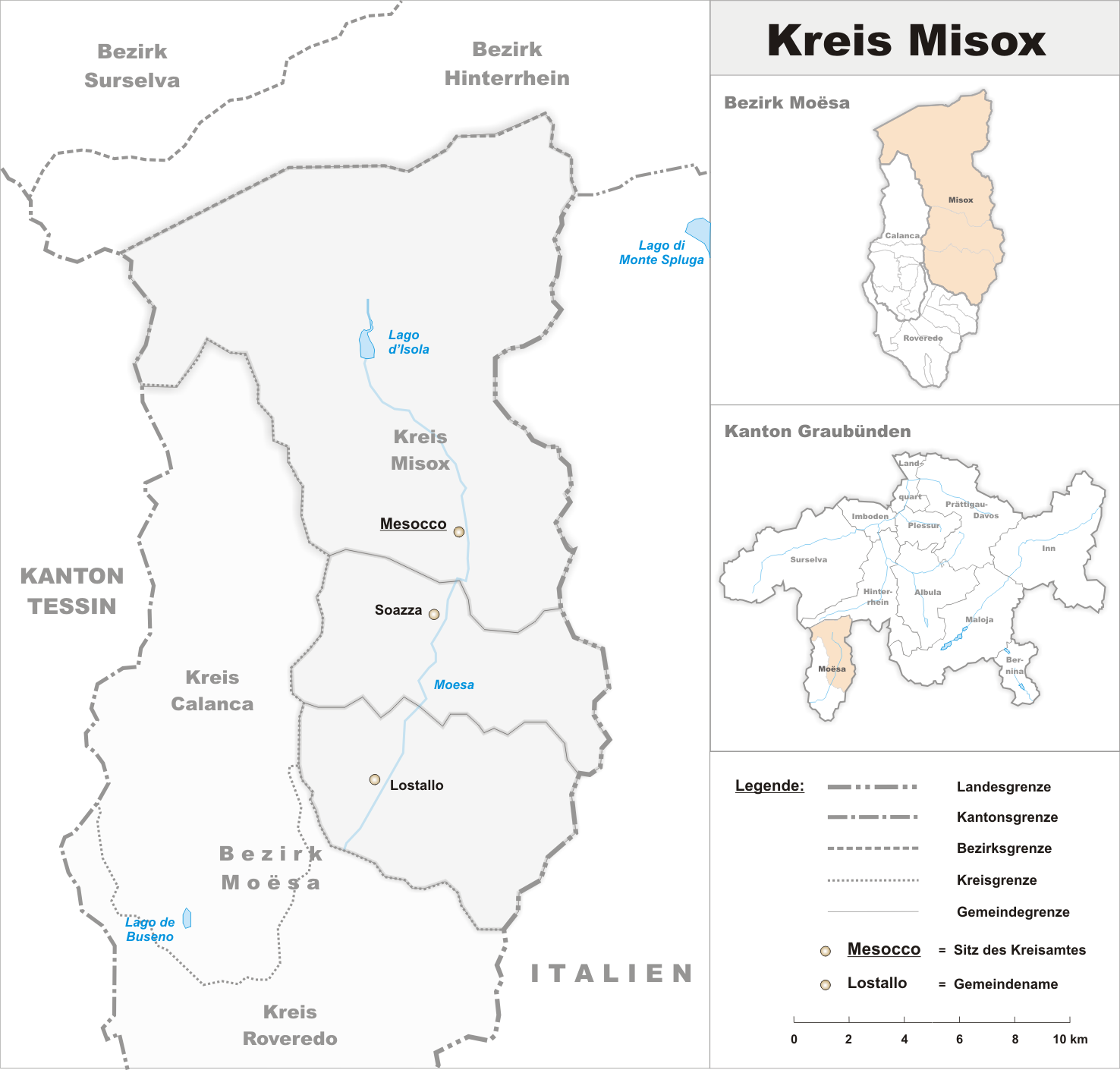 Municipalities in the circle of Mesocco